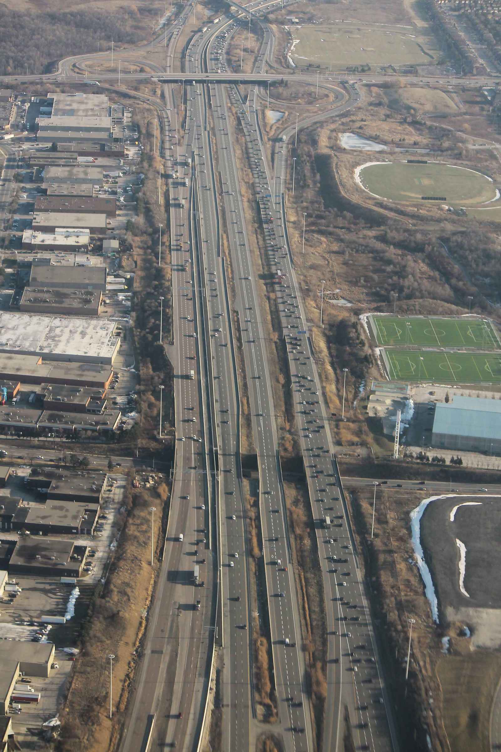 Highway 403 in Mississauga, facing south from Highway 401. Ontario, Canada.